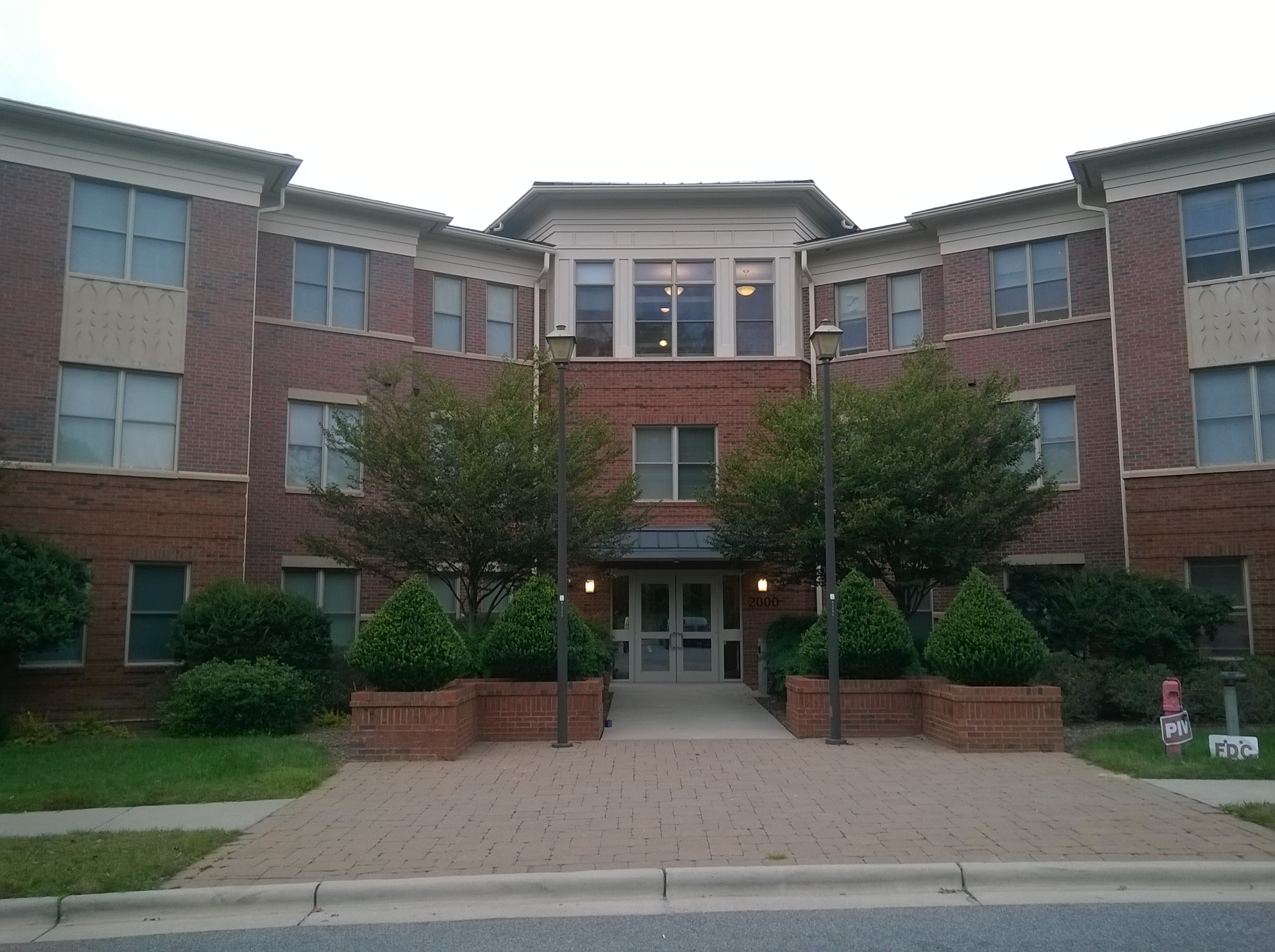 Baity Hill Apartment #2000, University of North Carolina at Chapel Hill